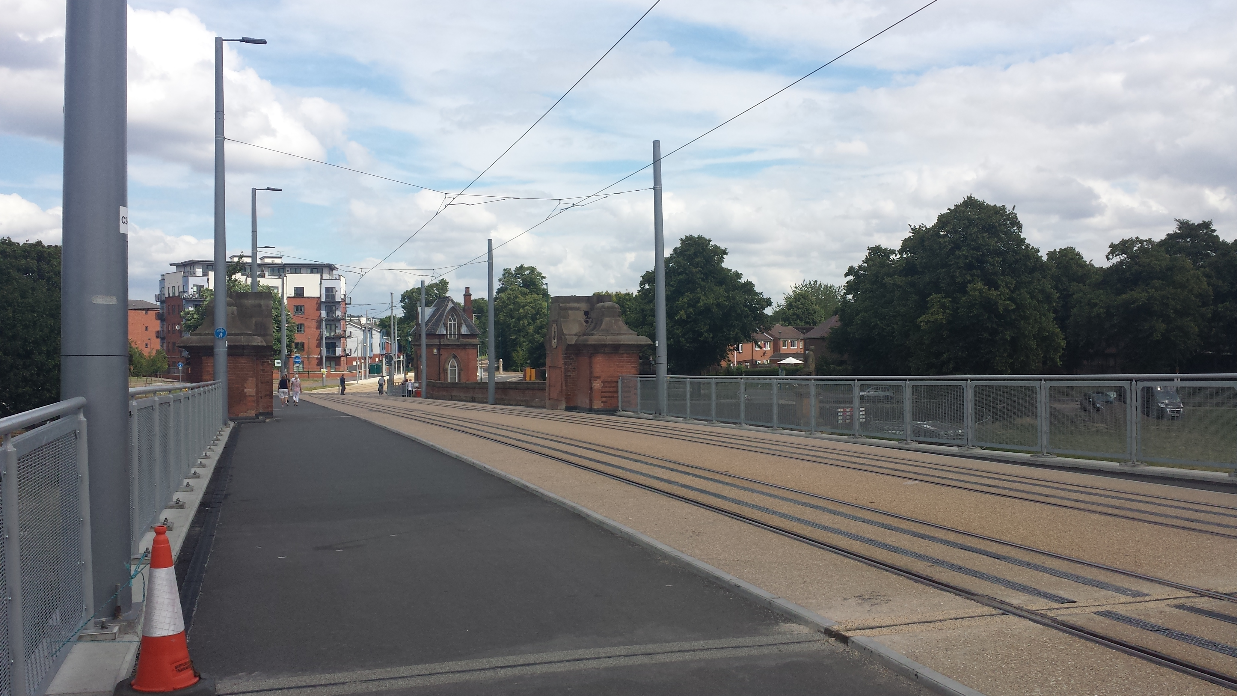 Wilford Toll Bridge looking north towards the city centre after construction of the Nottingham tram line to Clifton